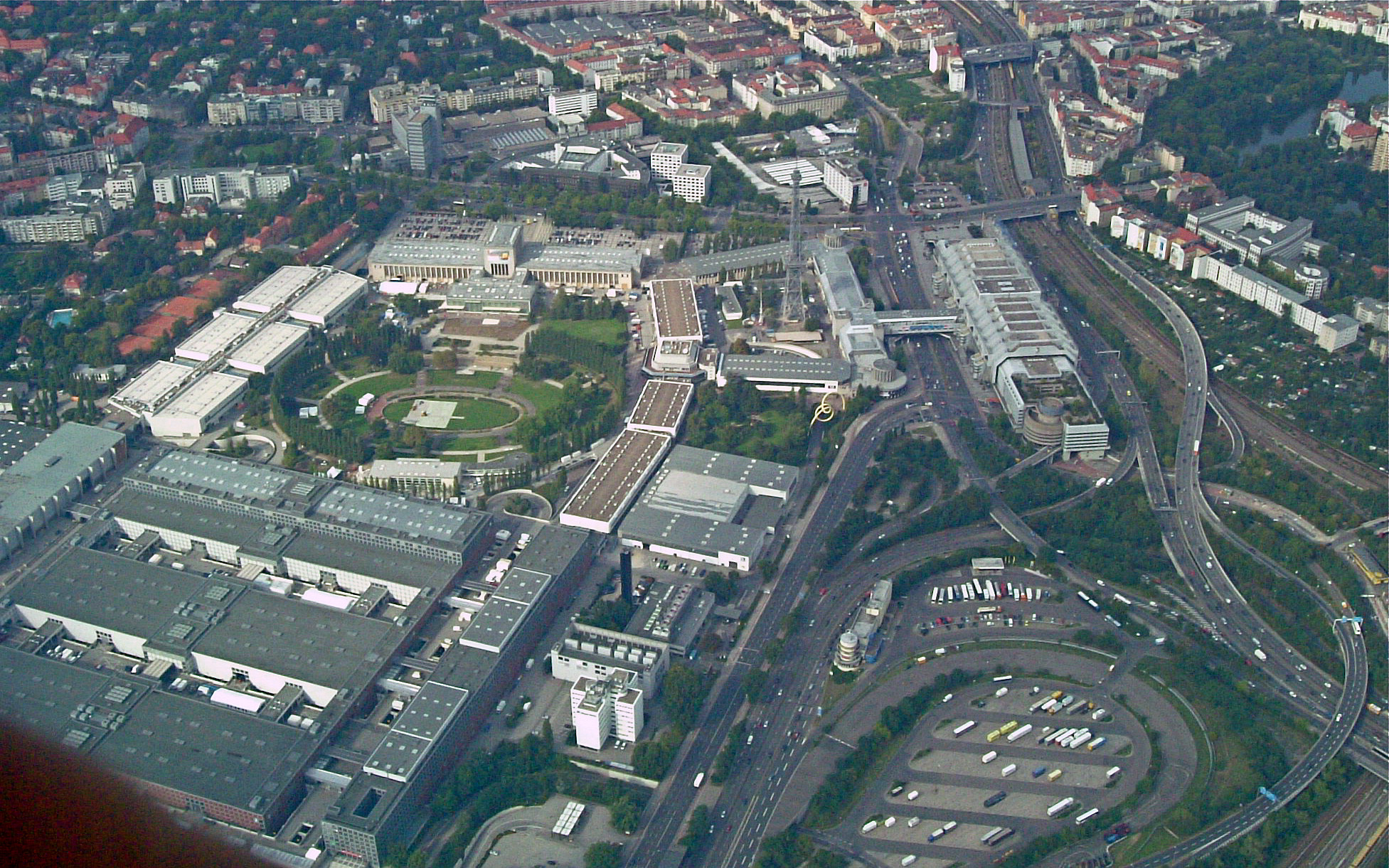 Fairground in Berlin, Funkturm Berlin (Radio Tower Berlin), International Congress Centre